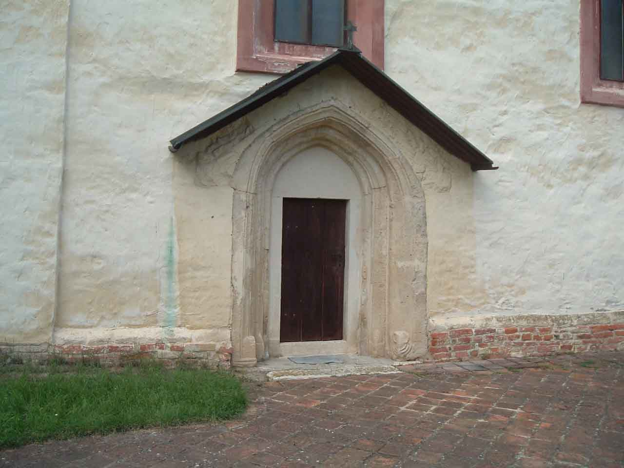 The entry of the church of Szentkereszt (13th c.), Táplánszentkereszt, Hungary